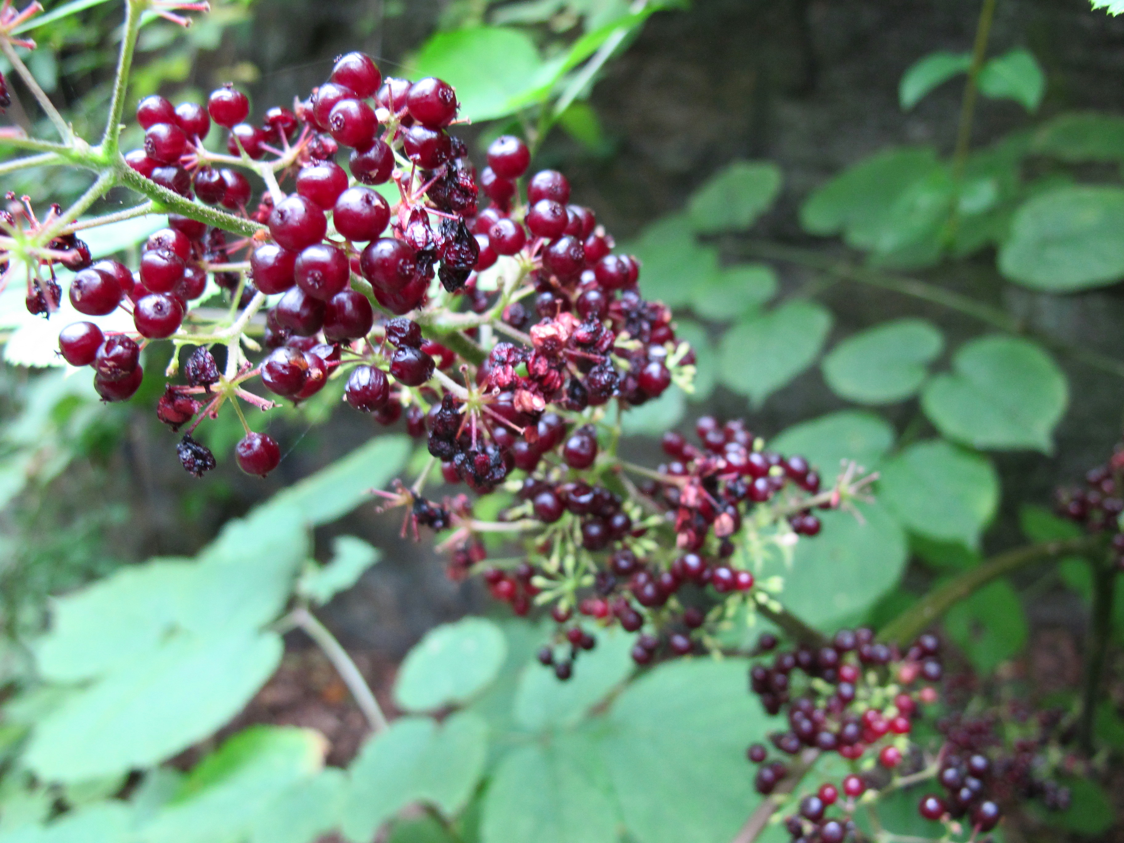 Aralia racemosa (American spikenard) at New York Botanical Garden